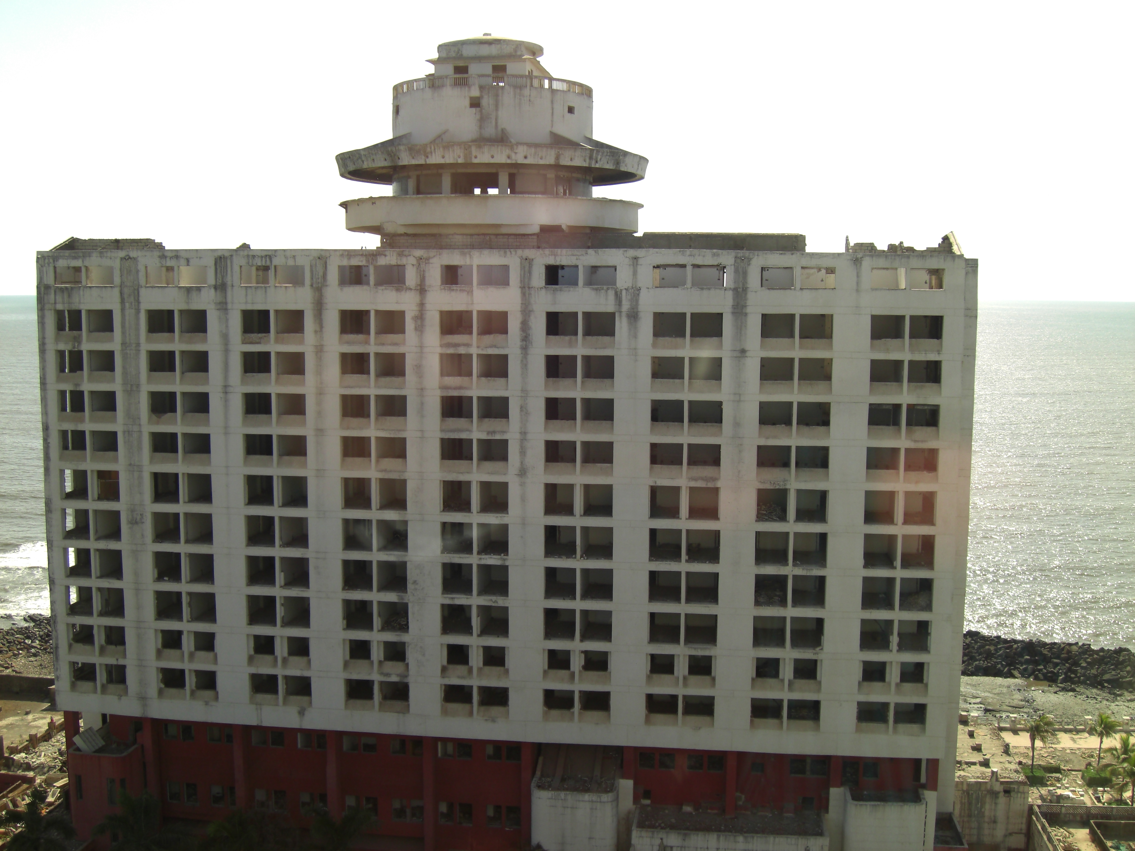 The abondened famous Sea Rock Hotel shot from Taj Lands End, Mumbai